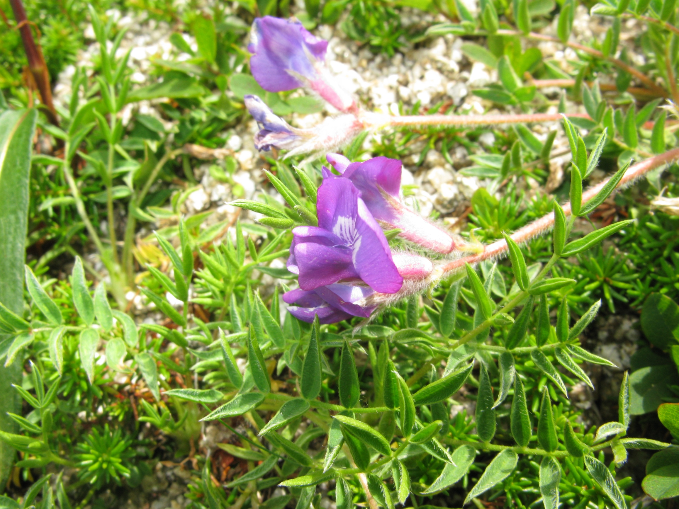 Oxytropis japonica var. japonica, Mt. Iidesan, Fukushima pref., Japan